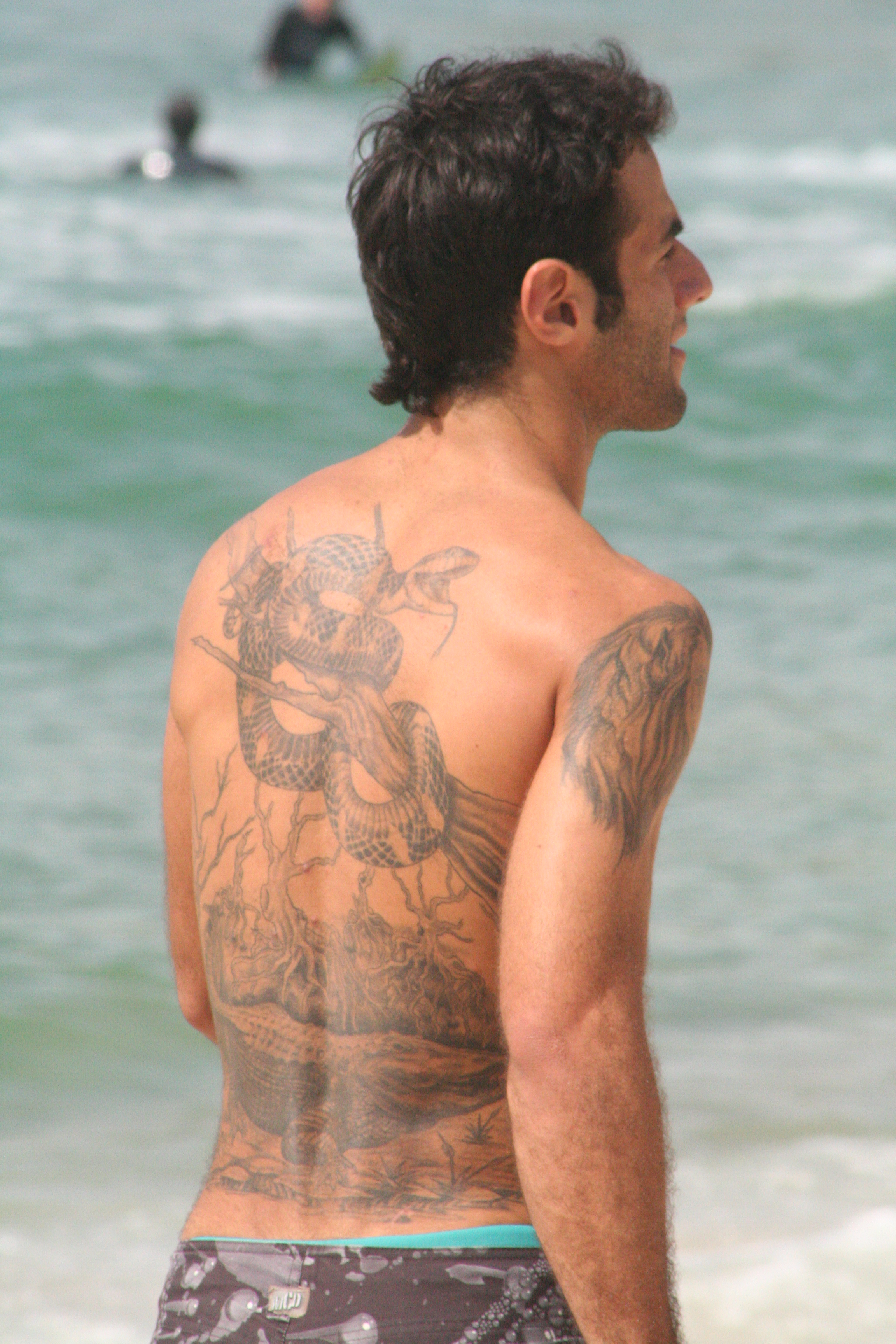 Man with tattoos on his back - at the beach. Photo by Johntex, 2006.